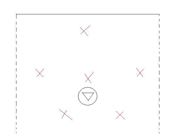 1-3-2 offense in lacrosse